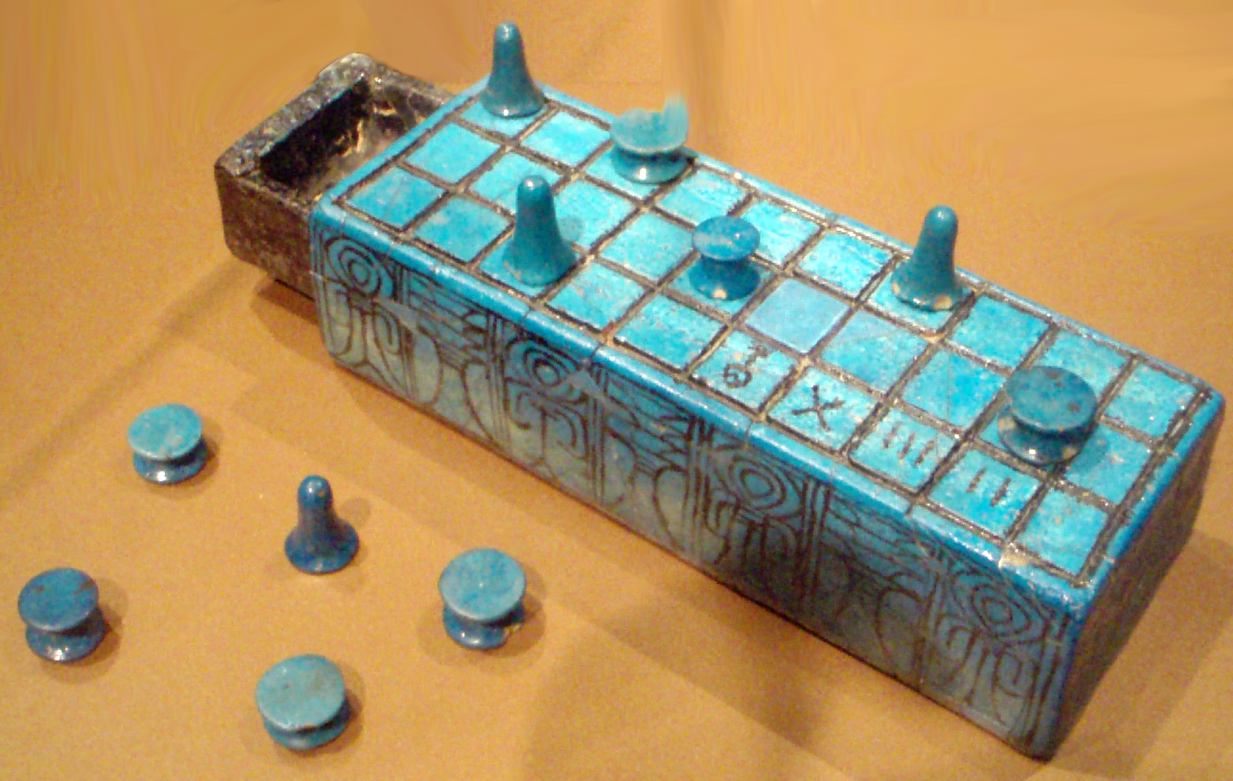 Faience senet board and playing pieces inscribed with the name of Amunhotep III. Reportedly from Thebes, and possibly from his tomb.